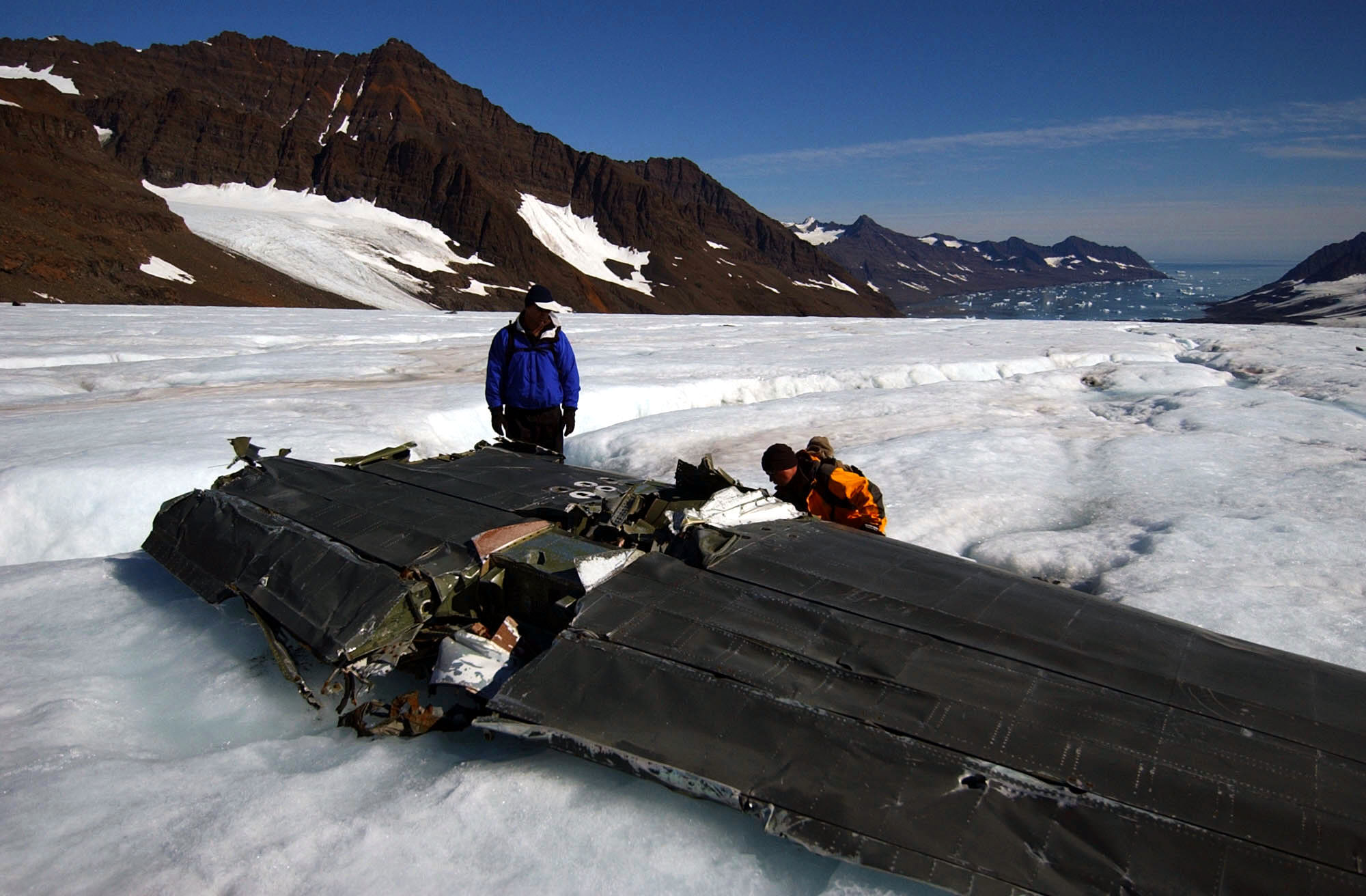 Greenland (Aug. 8, 2004) - Aero Medical Safety Officer for Commander, Naval Air Force Atlantic (COMNAVAIRLANT), Lt. Cmdr. Christopher Blow, left, and Lt. Cmdr. Steve Dial examine the wreckage of a Navy P-2V Neptune aircraft that crashed in Greenland in 1962. The Navy is currently conducting recovery operations in Greenland to bring back any human remains. U.S. Navy photo by Photographer’s Mate 2nd Class Jeffrey Lehrberg (RELEASED)